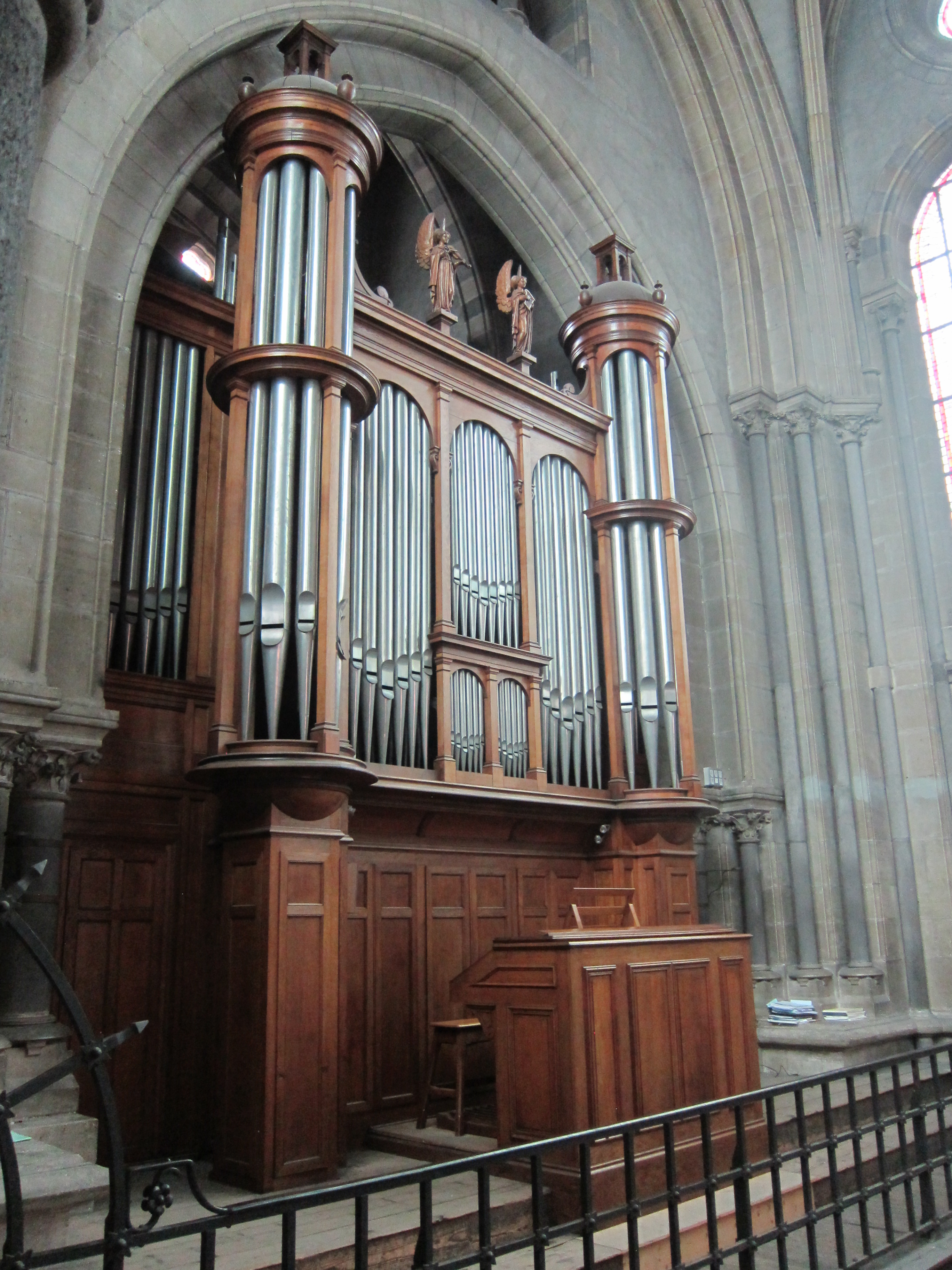 Buffet du grand orgue Merklin de la cathédrale de Moulins (1880)